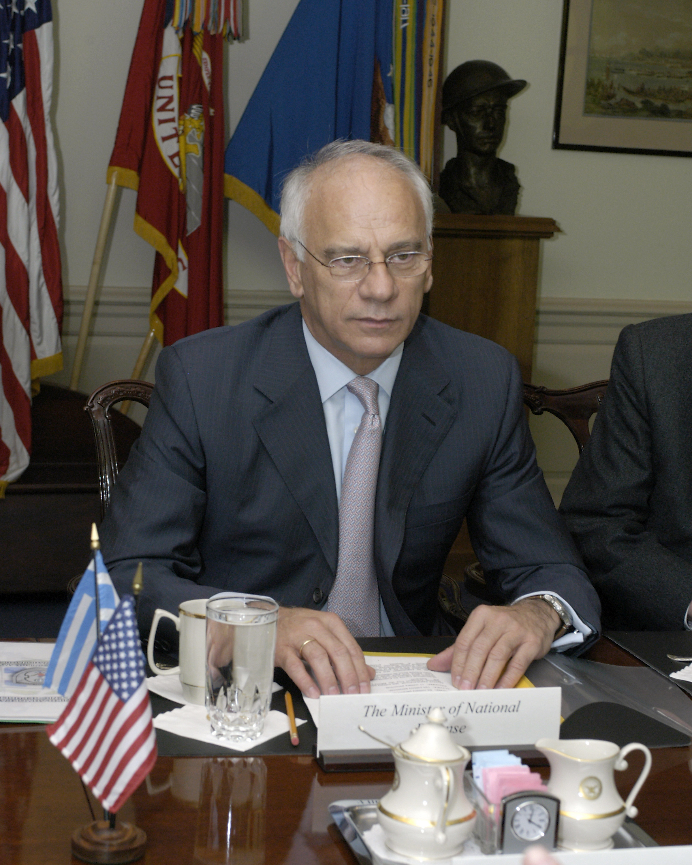 ex Greece's National Defence Minister Spilios Spiliotopoulos This image is a work of a U.S. military or Department of Defense employee, taken or made as part of that person's official duties. As a work of the U.S. federal government, the image is in the public domain.